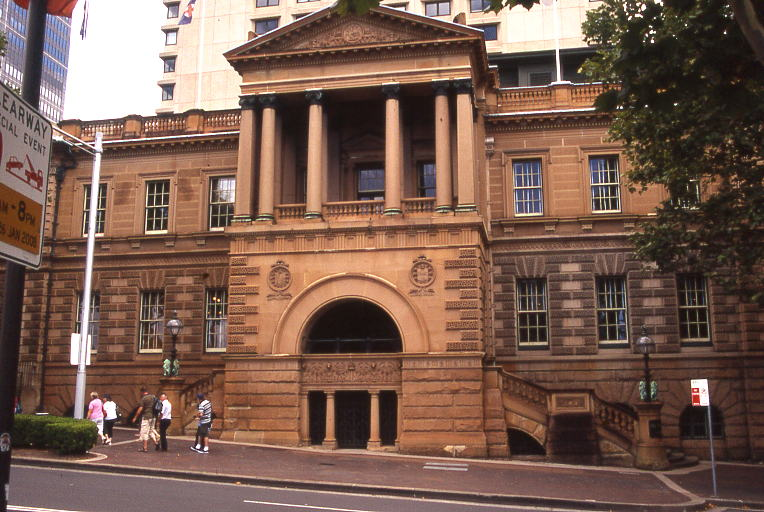 former Premier's Office, Macquarie Street ,Sydney